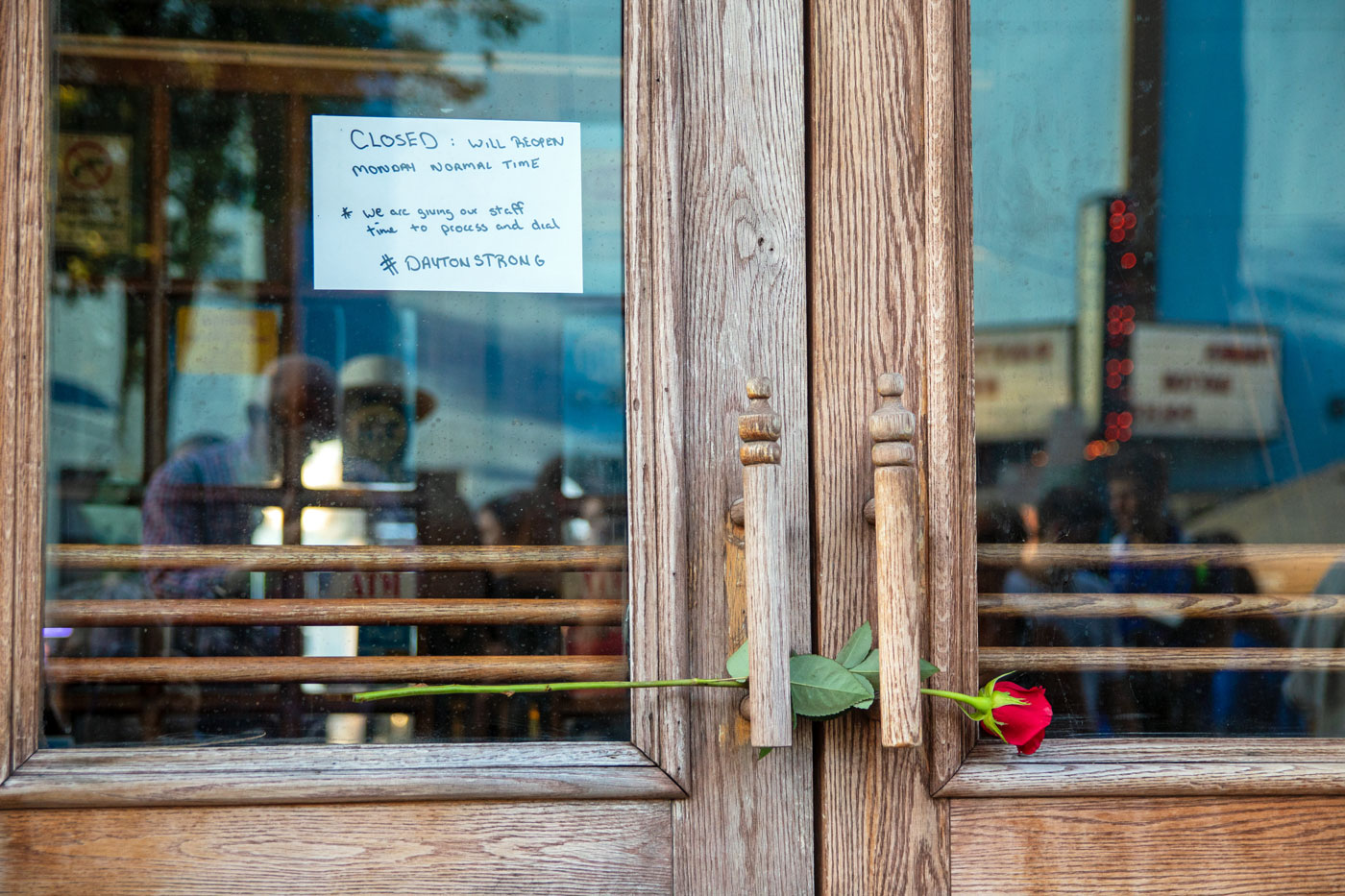 Note at Ned Peppers Bar after 2019 Dayton shooting